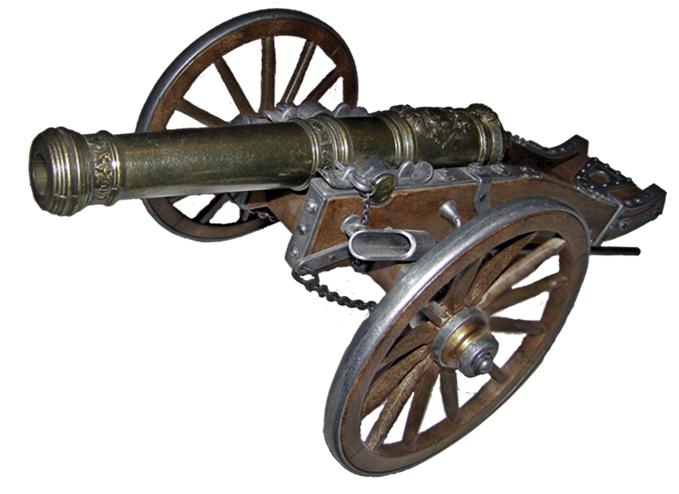 Cannon Model - Part of my military models collection